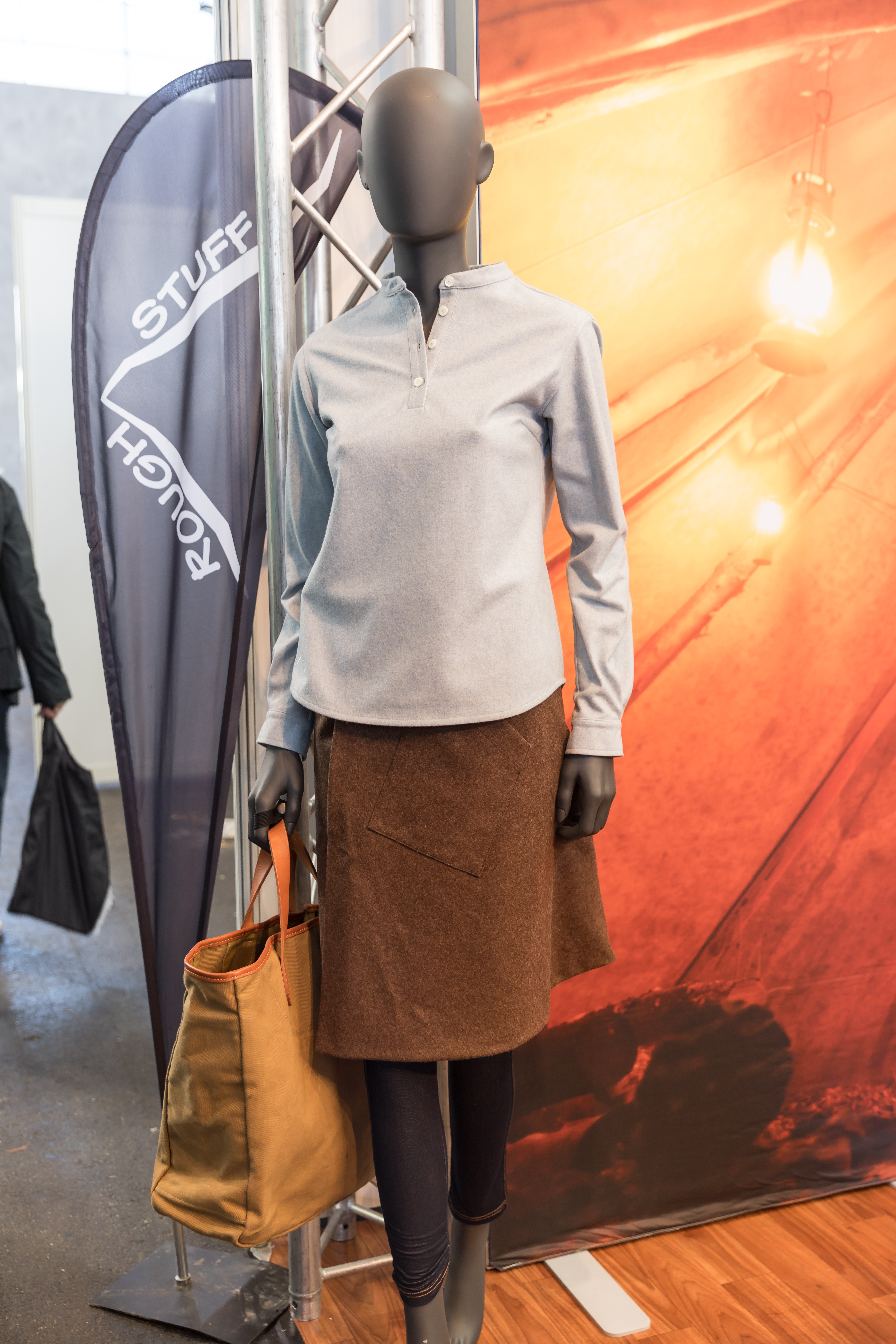 Press preview, OutDoor 2018